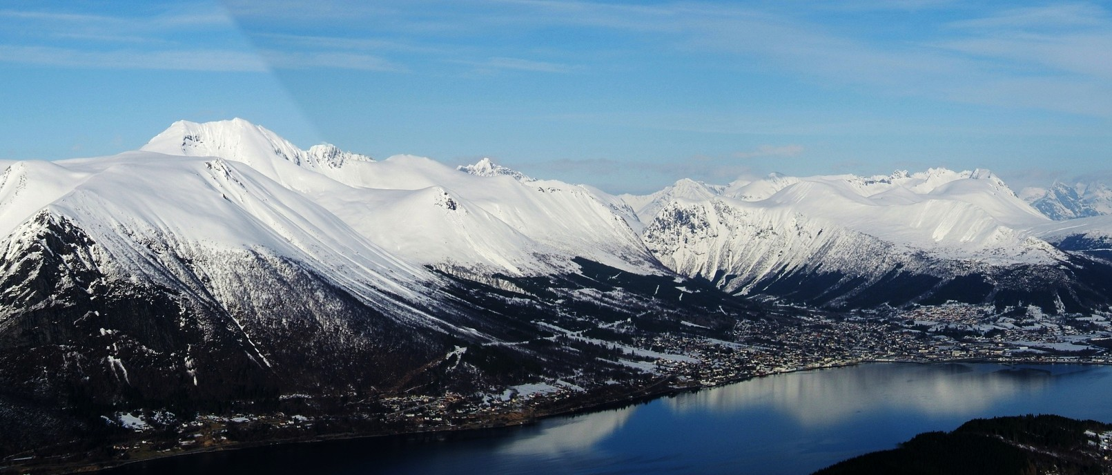 Saudehornet (highest in left part) seen from Helgehornet. Ørsta to the right.